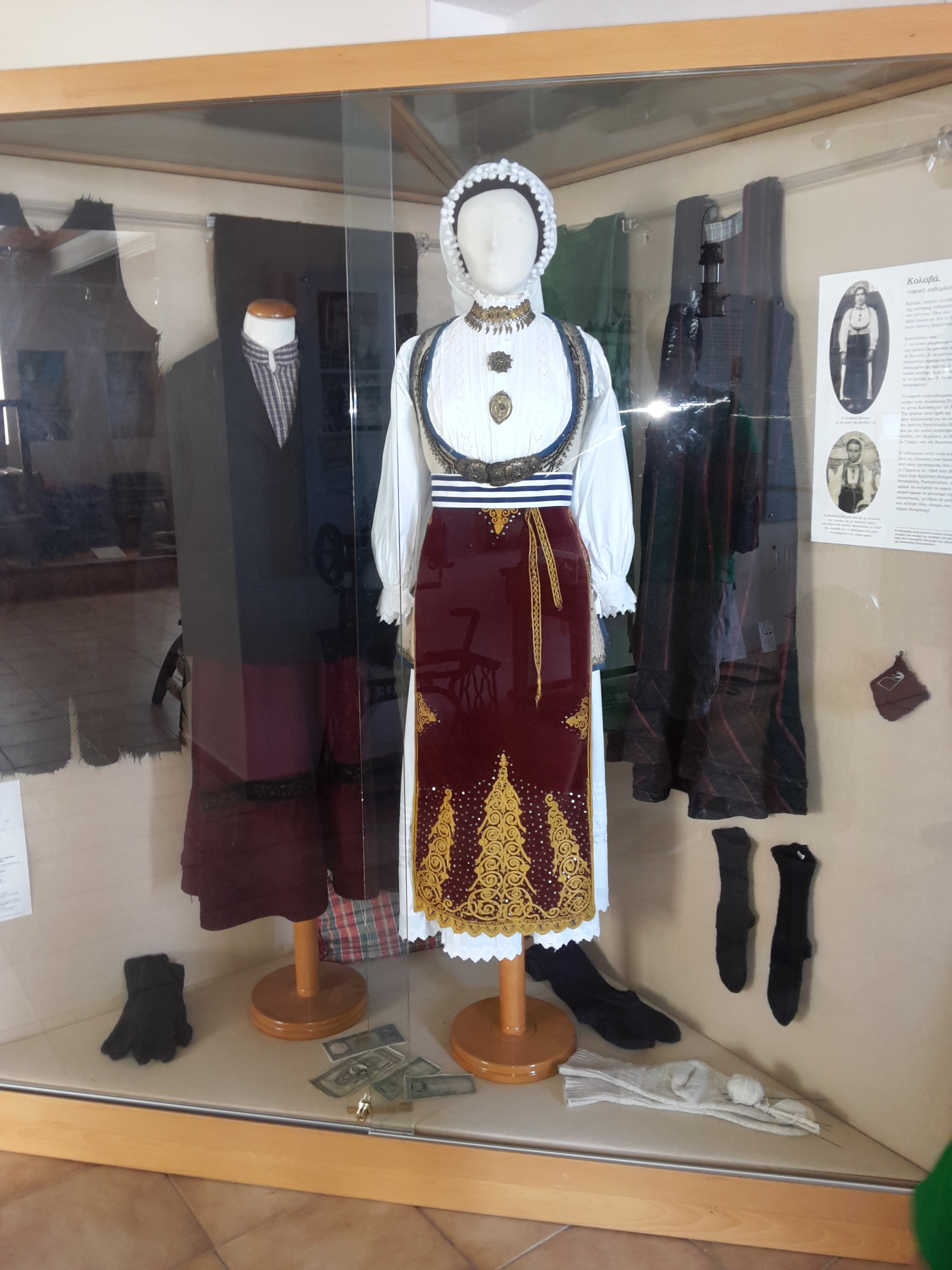 Παραδοσιακή Ενδυμασία της Στερεάς Ελλάδας. Πολιτστικό Κέντρο Καλοσκοπής